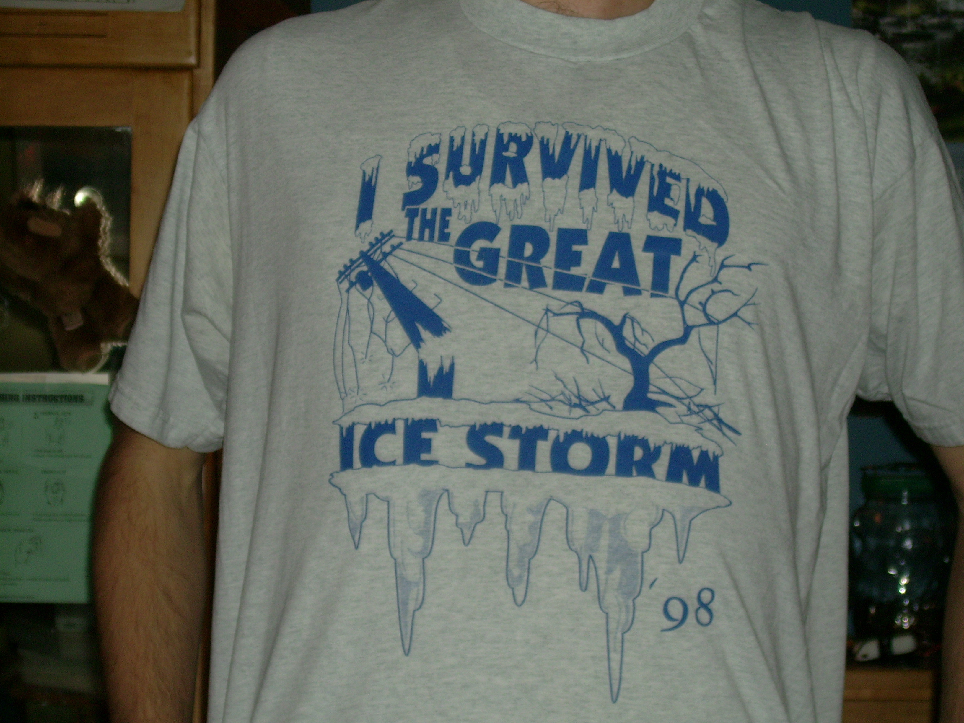 T-shirt of which came out after the North American ice storm of 1998.